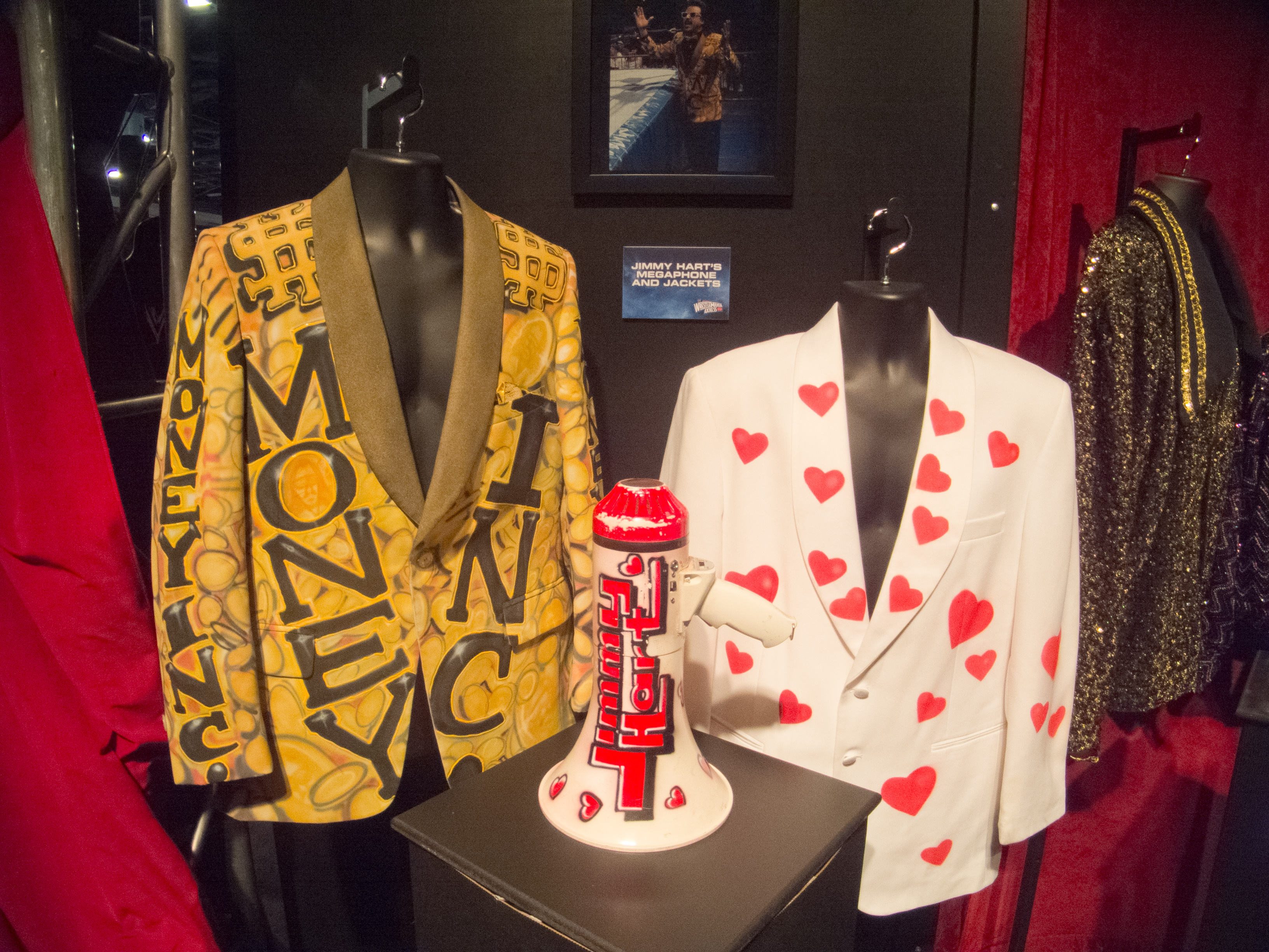 WWE Fan Axxess - Classic Memorabilia/Ring Gear